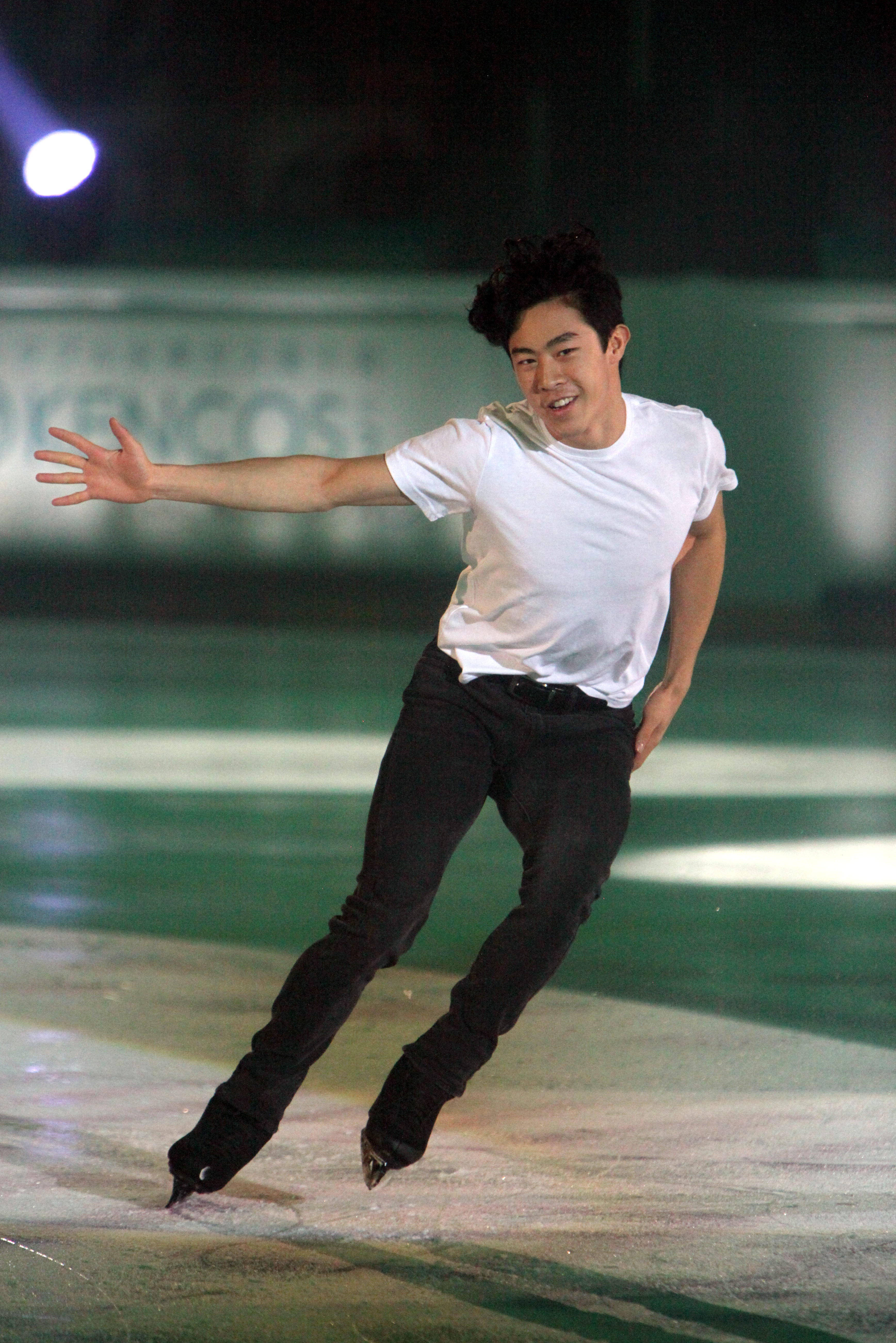 Nathan_Chen during the gala at the Internationaux de France de Patinage 2018.